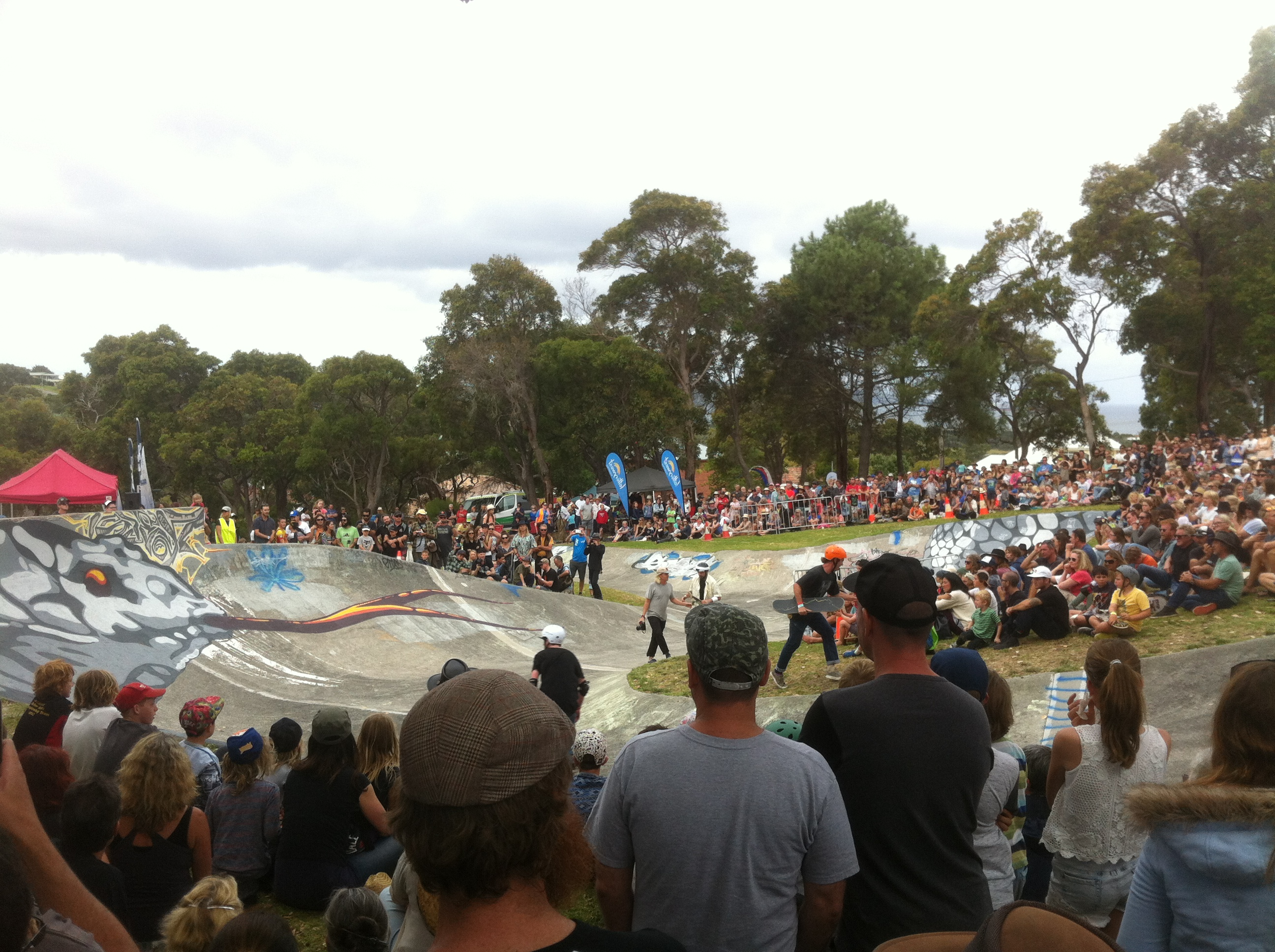 The top of the Snake Run in 2016 during 40th Anniversary celebrations.